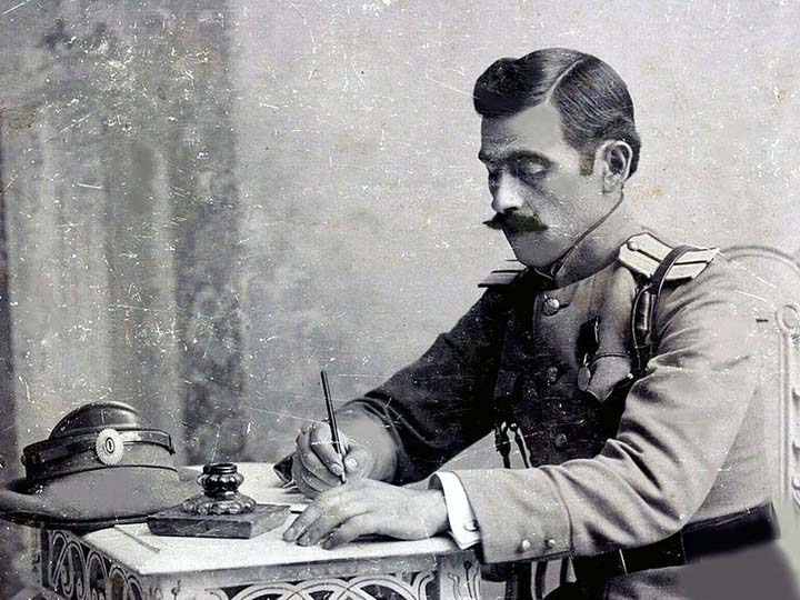 General Giorgy Mazniashvili in the early 1900s